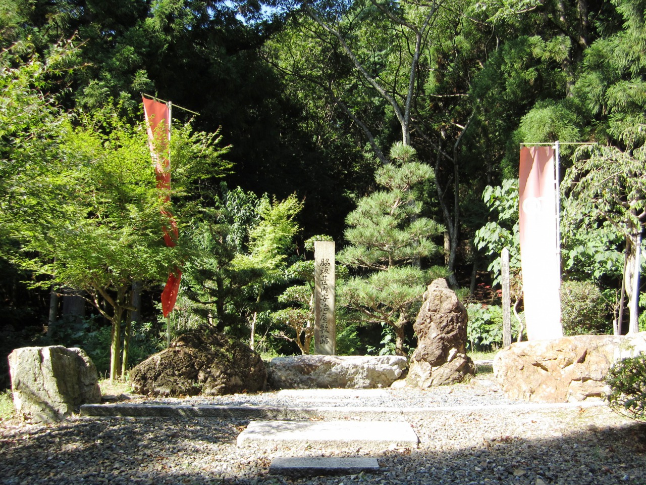 The site of Wakizaka Yasuharu's residence where was his birthplace in Nagahama, Shiga.